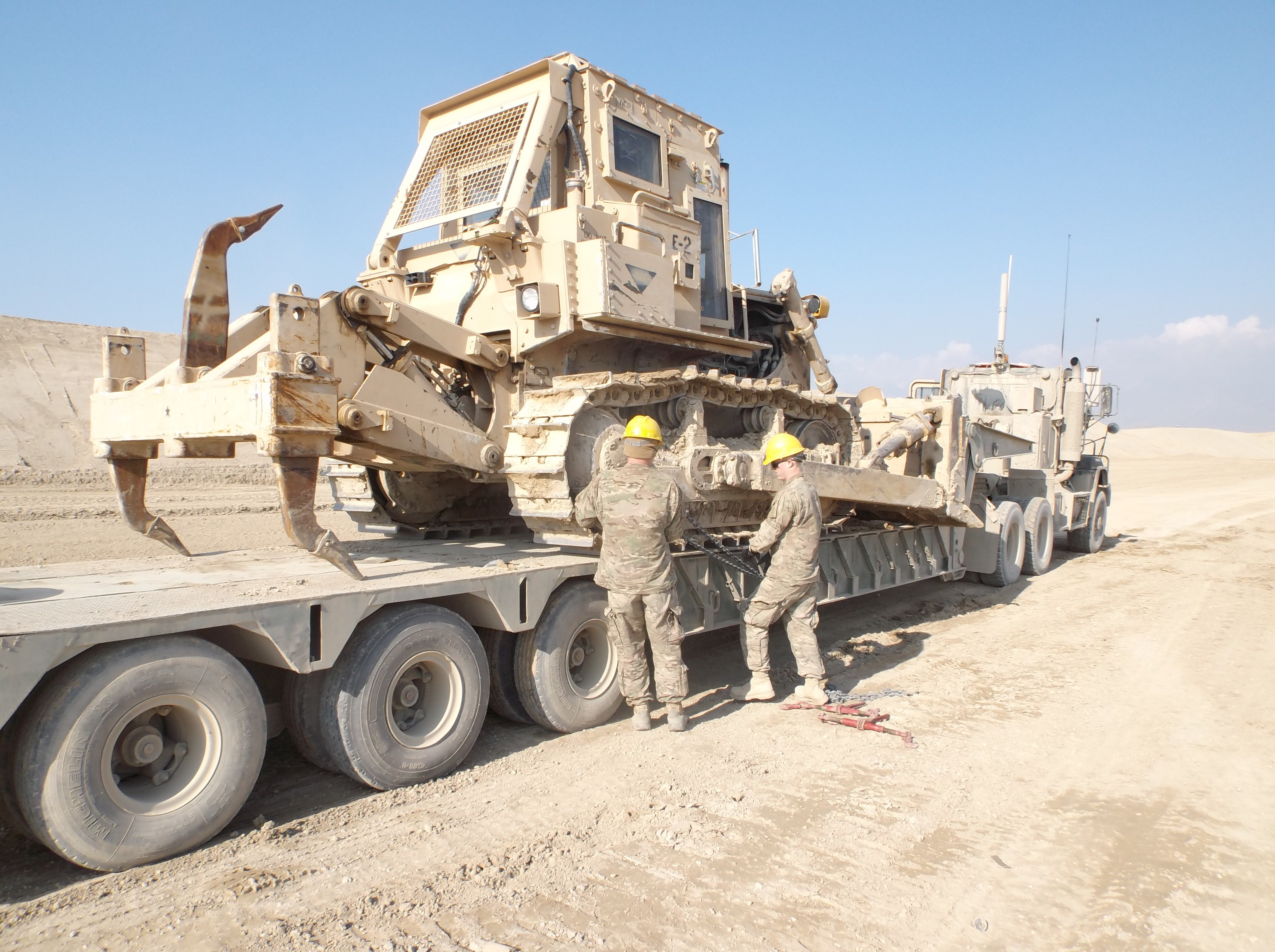 Nelsonville, Ohio, native, Spc. Jacob Fayette and St. Marys, W.Va. native, Spc. Ronald Miller, both heavy equipment operators for the 779th Engineer Company, attached to the Portland, Maine-based 133rd Engineer Battalion, bind down a bulldozer during a mission to construct a berm Feb. 27 at Bagram Air Field, Afghanistan.